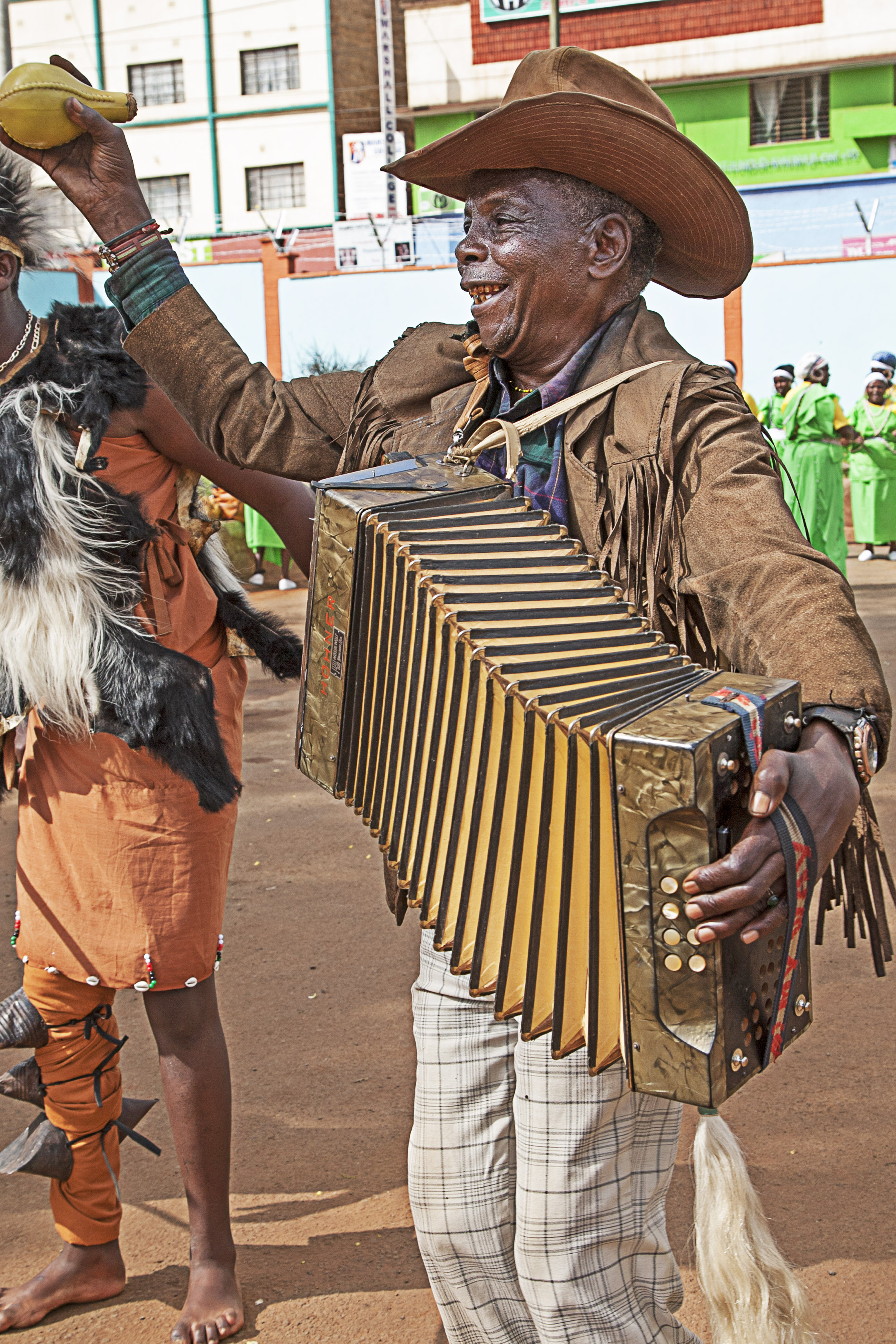 An Old school tradional musician performs a jig. This is an image of "African people at work" from Kenya